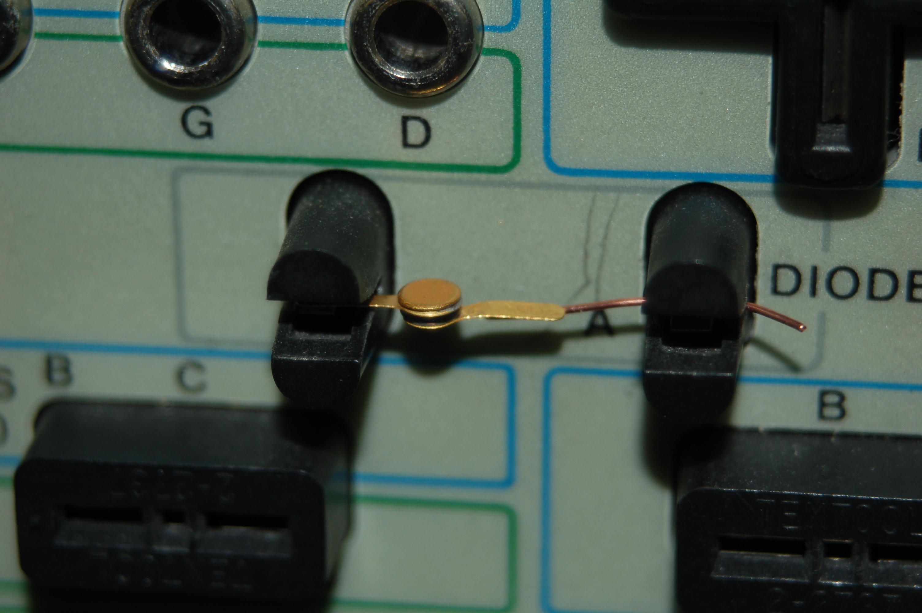 Photograph of a 10mA germanium tunnel diode mounted in the test fixture of a Tektronix model 571 curve tracer.